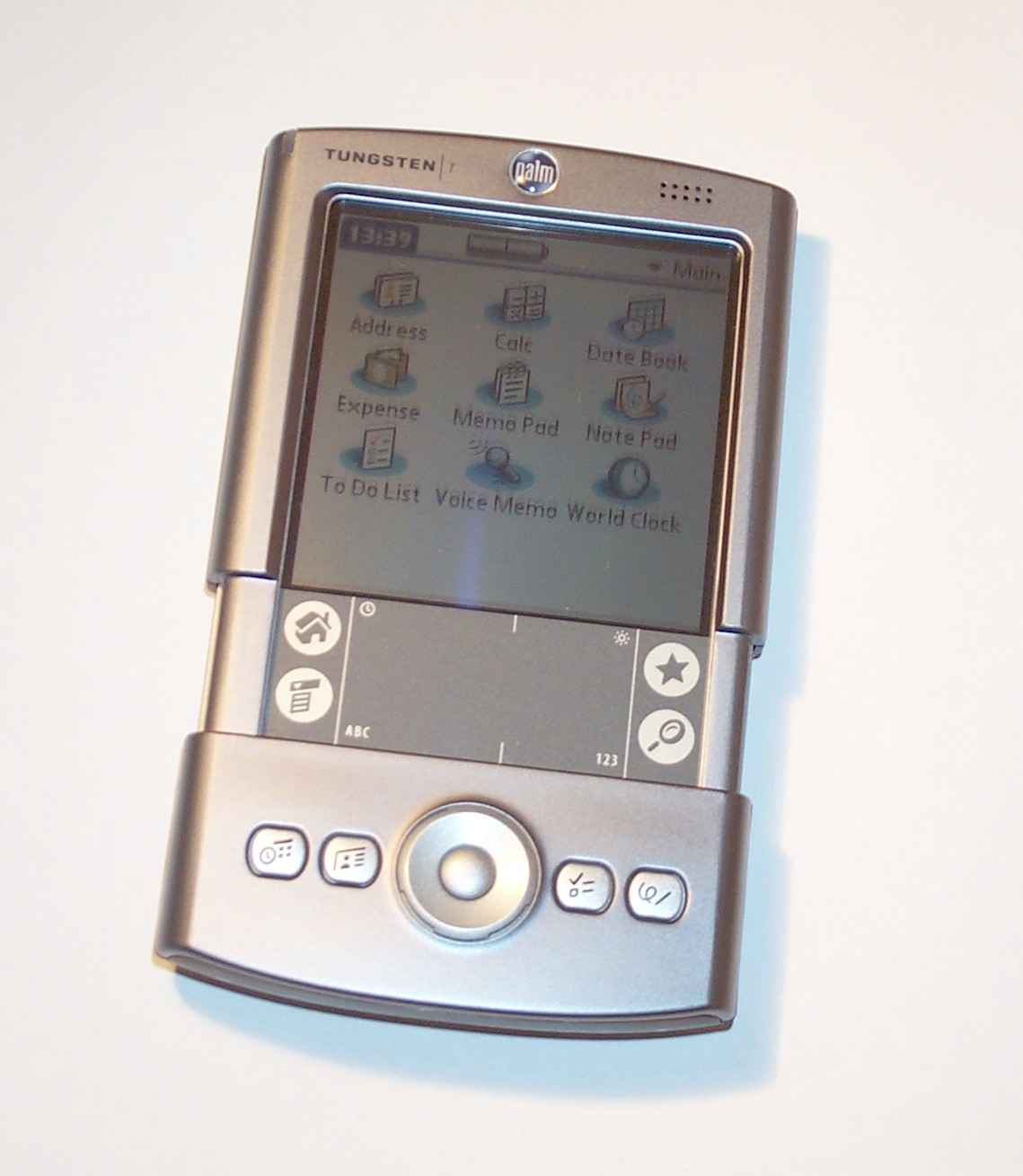 Palm Tungsten T personal digital assistant (PDA). Shown with sliding Graffiti writing area extended.